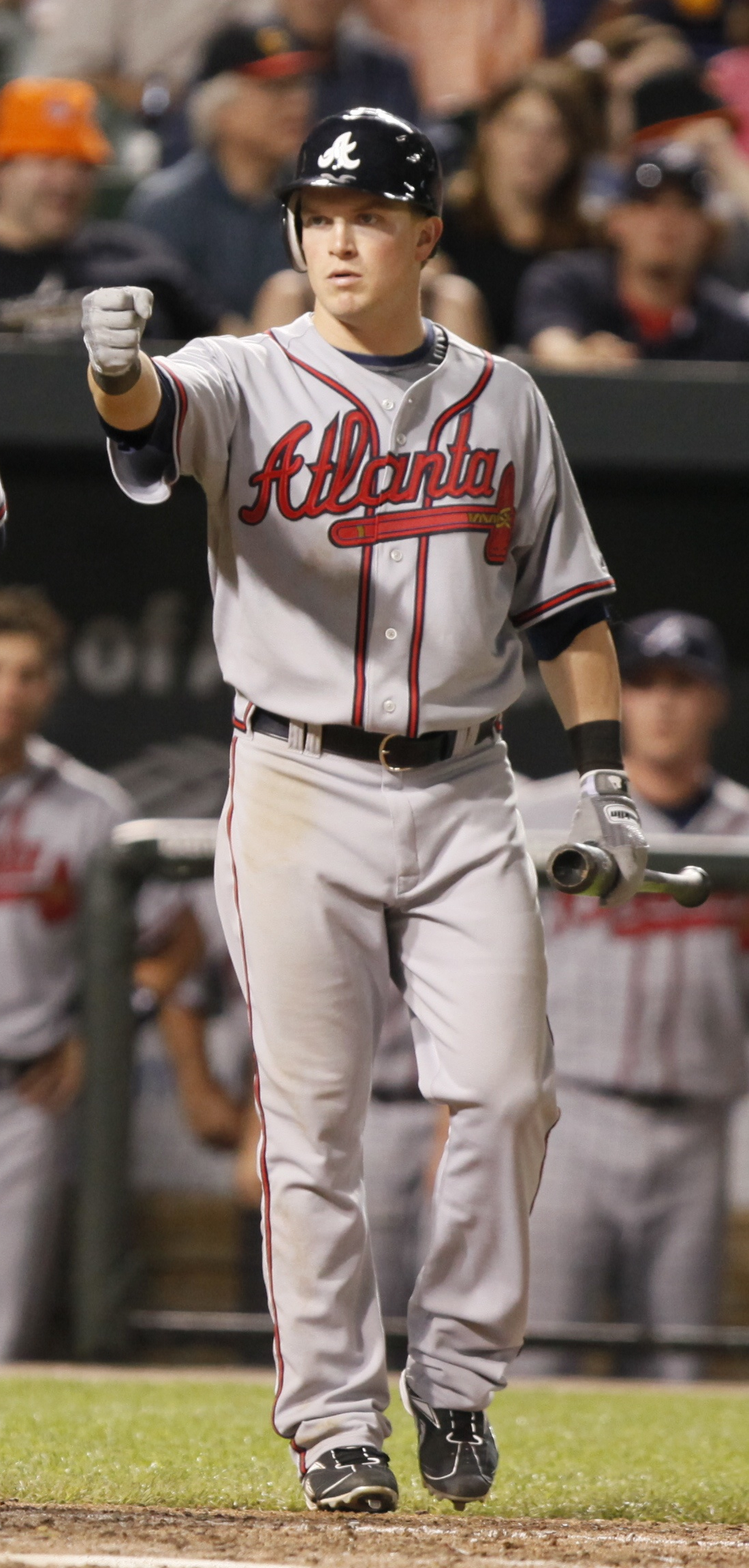 Nate McLouth